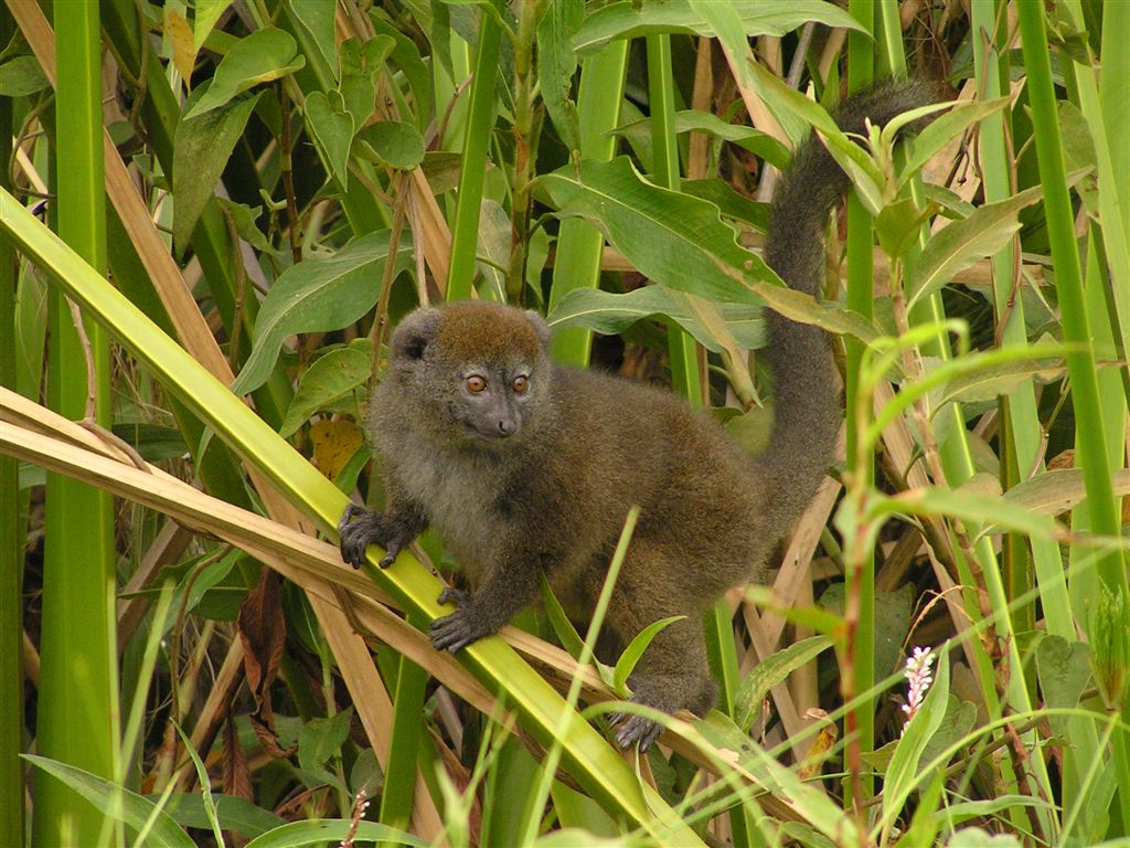 Adult Alaotran gentle lemur (Hapalemur alaotrensis) in papyrus vegetation in Alaotra marsh, near Andreba Gare village (Madagascar)